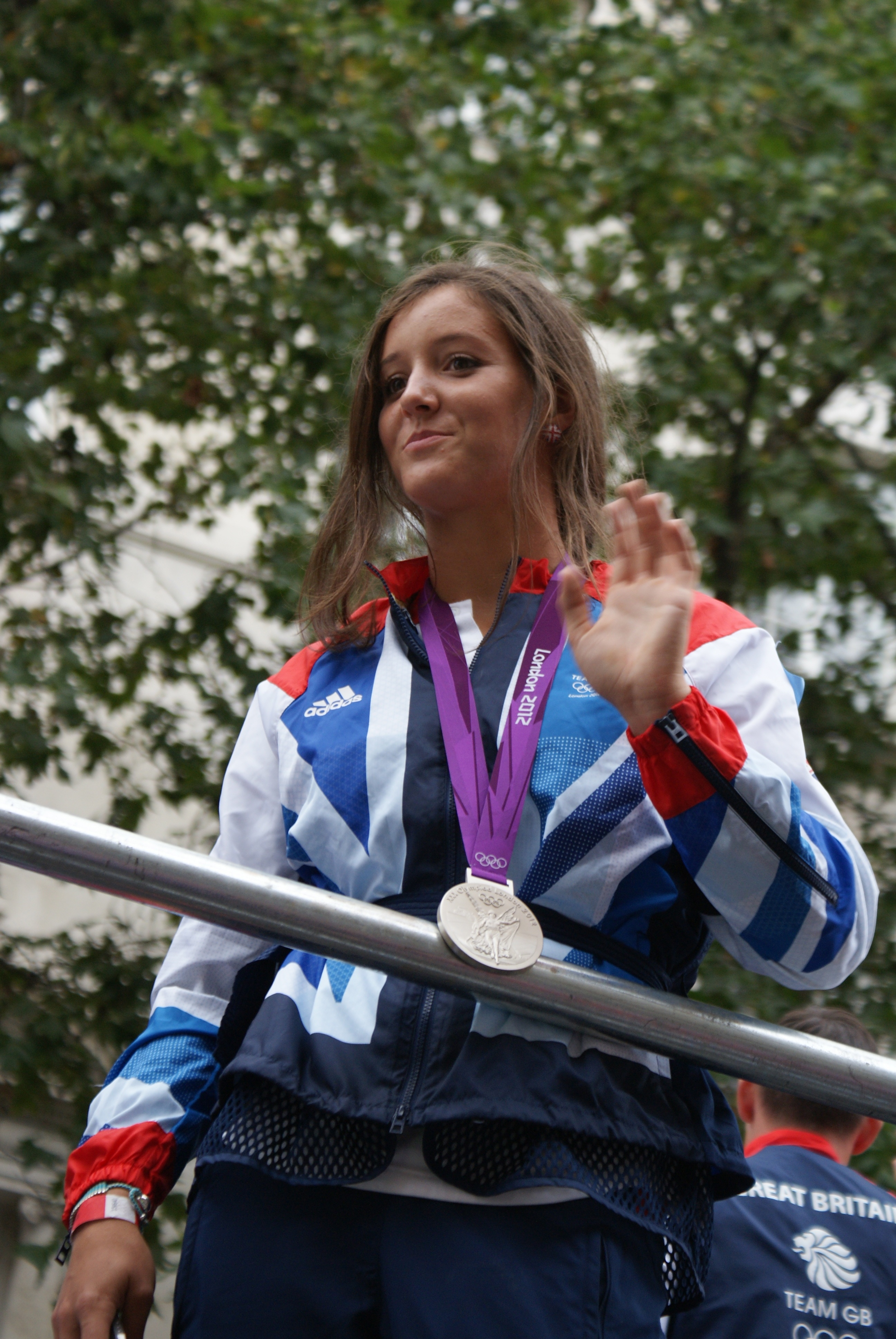 Robson at the parade for Paraylympic and Olympic atheletes